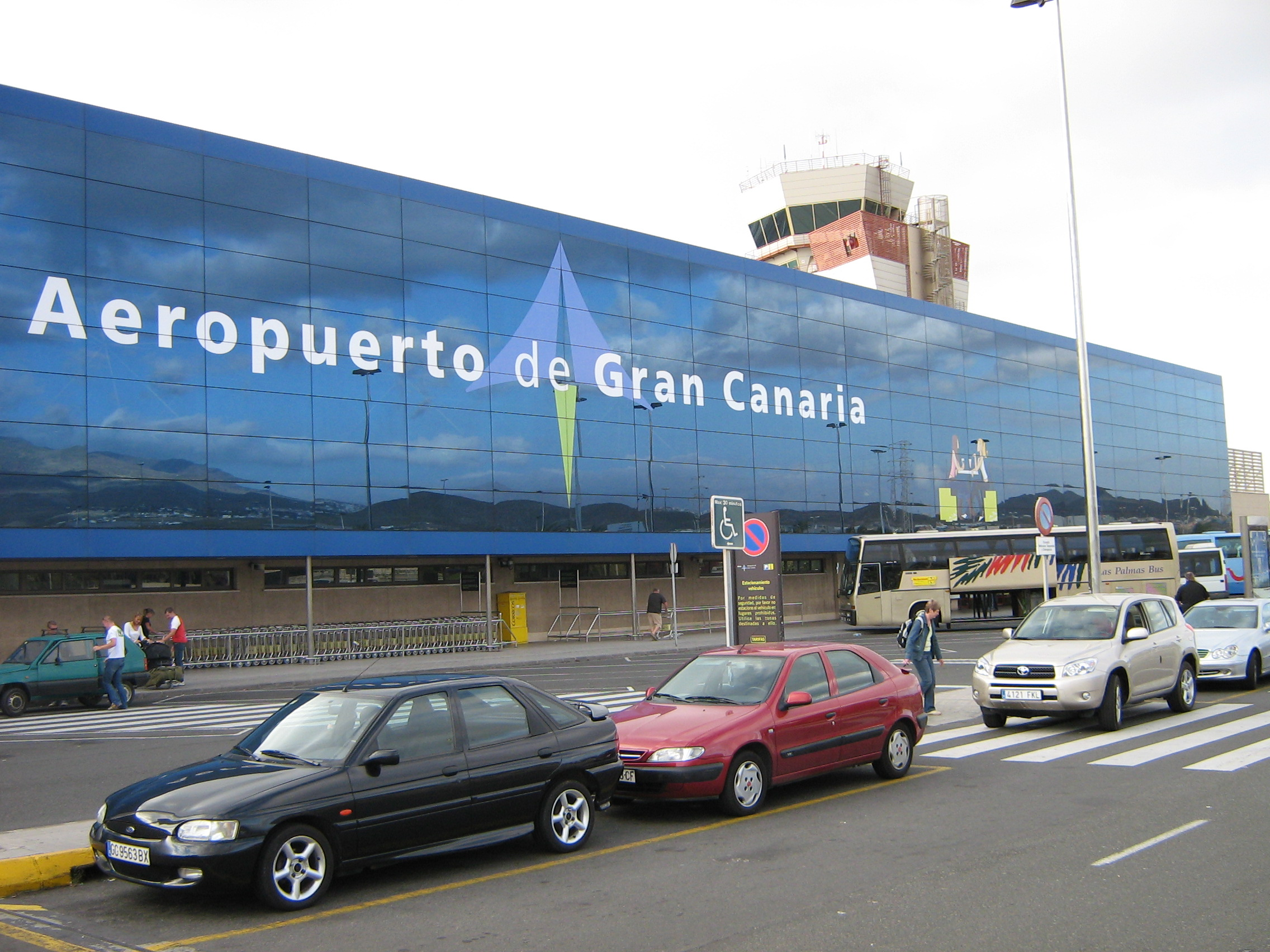 Gran Canaria Airport (LPA), International Terminal building. (Gran Canaria, Canary Islands. Spain)